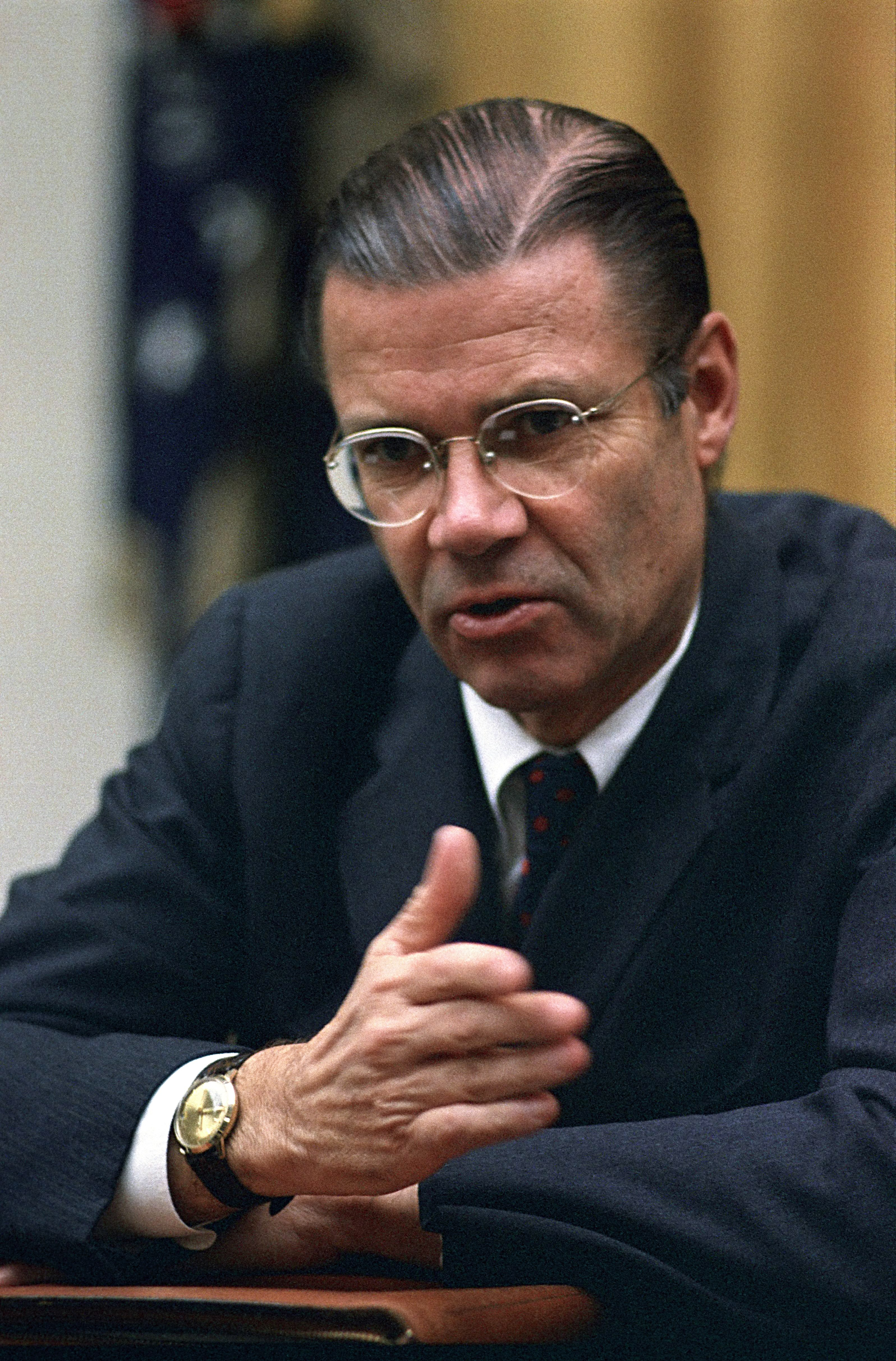 Secretary of Defense Robert McNamara at the Cabinet Room, White House, Washington, DC